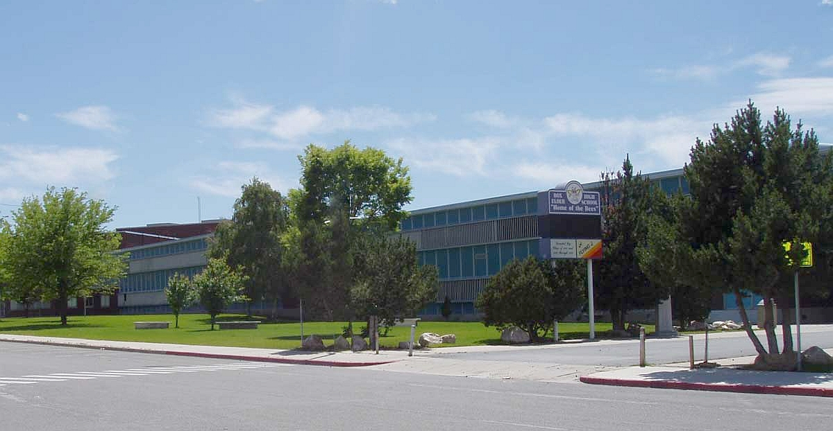 Box Elder High School building